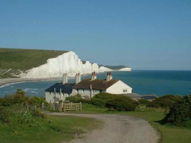 Coastguard Cottages